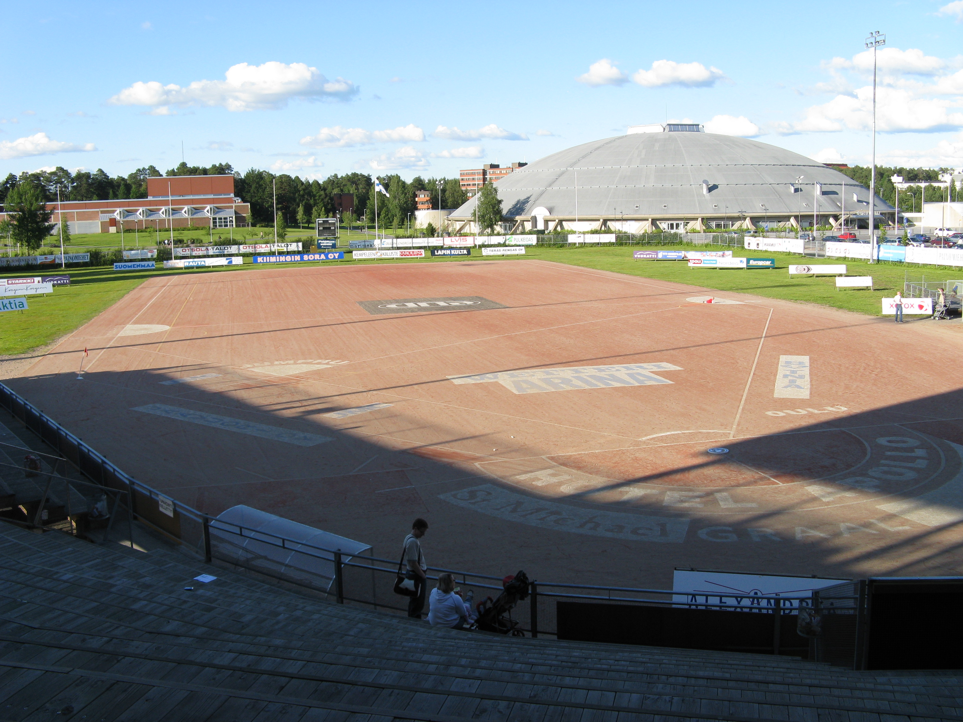 Pesäpallo ("Finnish baseball") stadium in Oulu, Finland